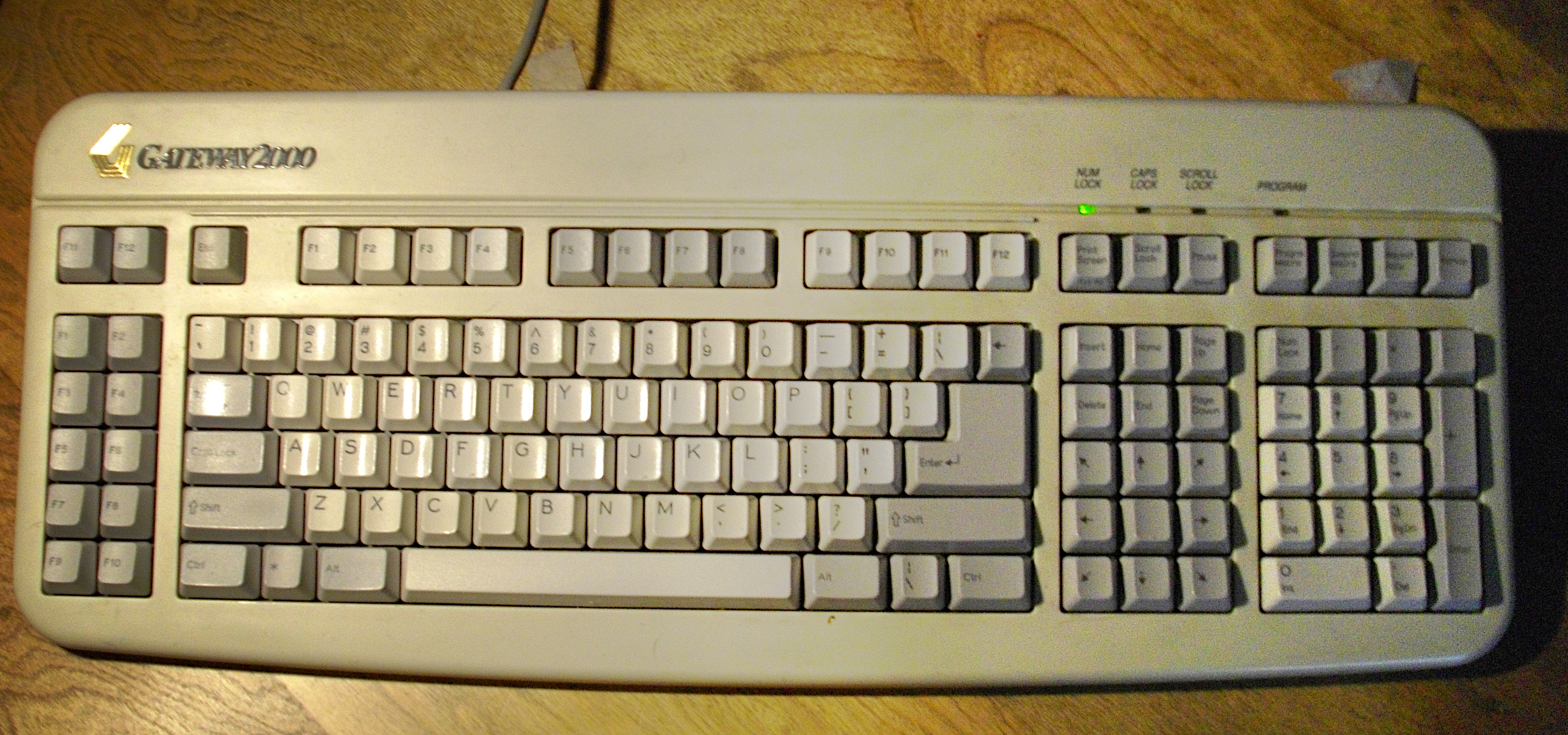 Picture of a Gateway AnyKey keyboard.